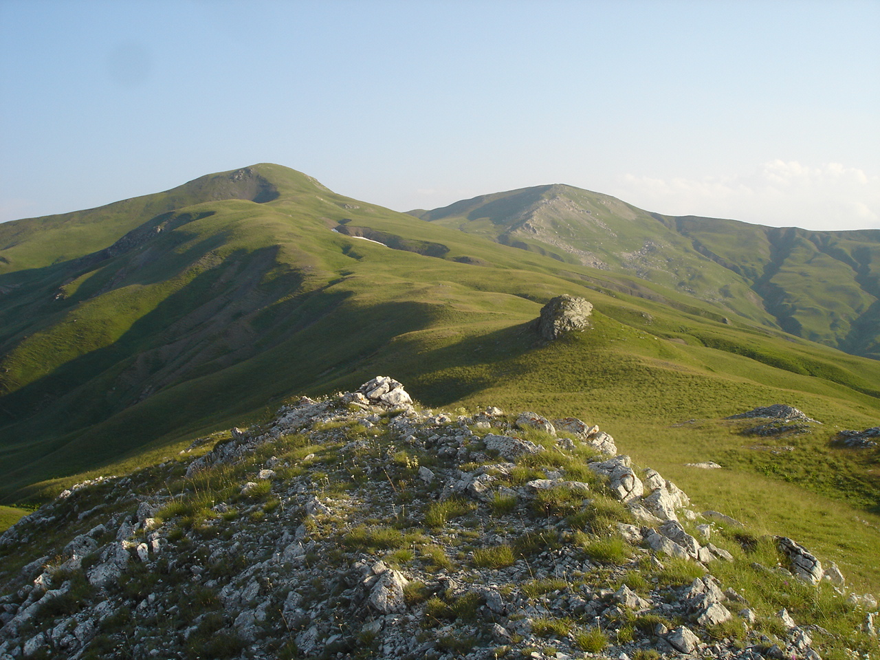 Babin Srt peak on Stogovo mountain, Macedonia